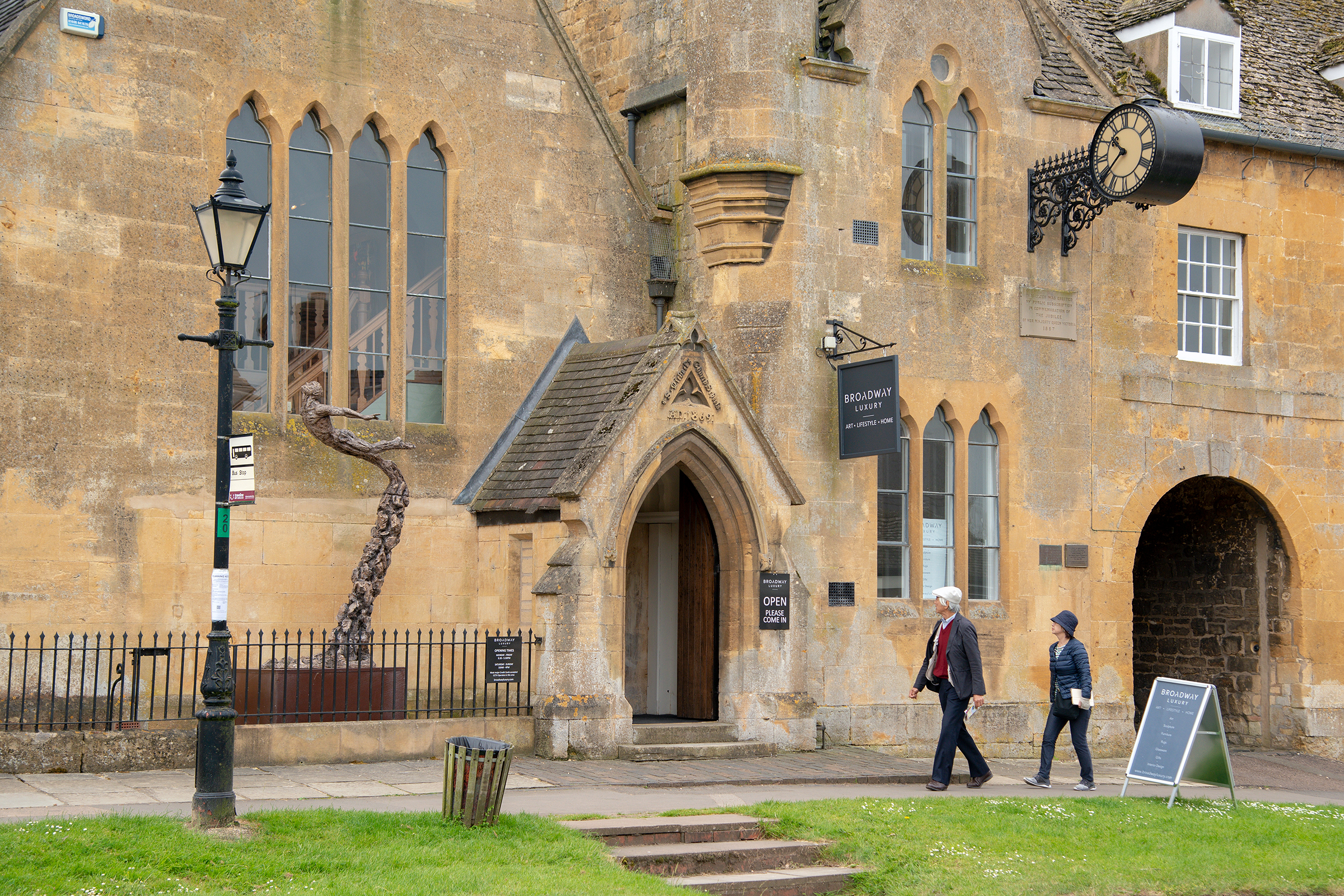 This old school at 67 High St. was part of a shop in1856, and was enlarged 1869. It now houses a shop.